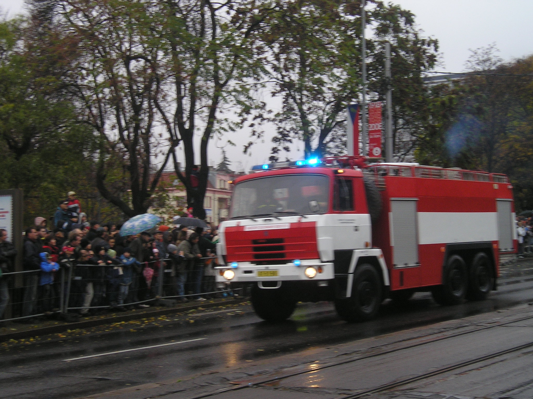 TATRA CAS-32 T815 fire engine, Czech Republic